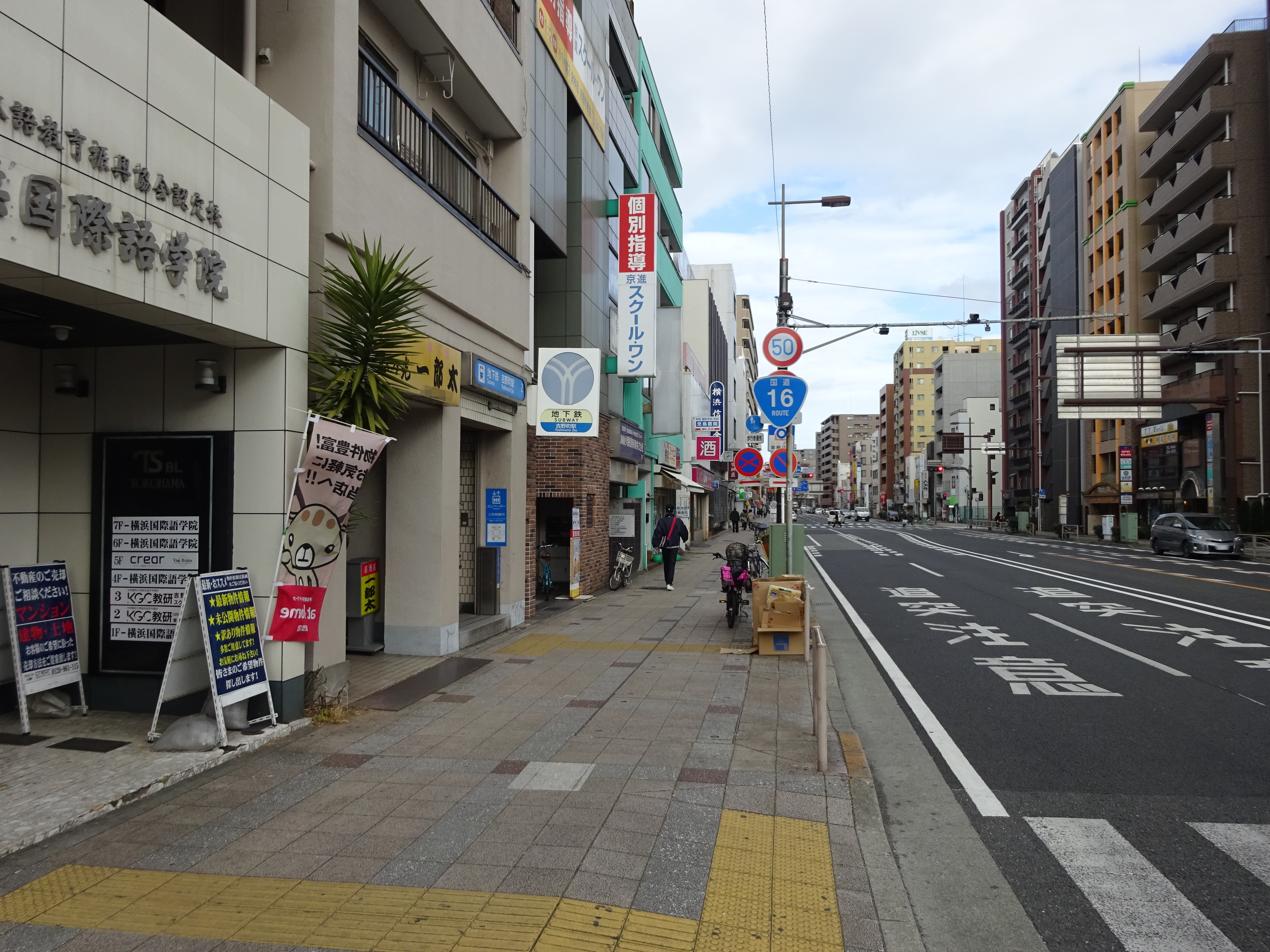 Yoshinochō Station